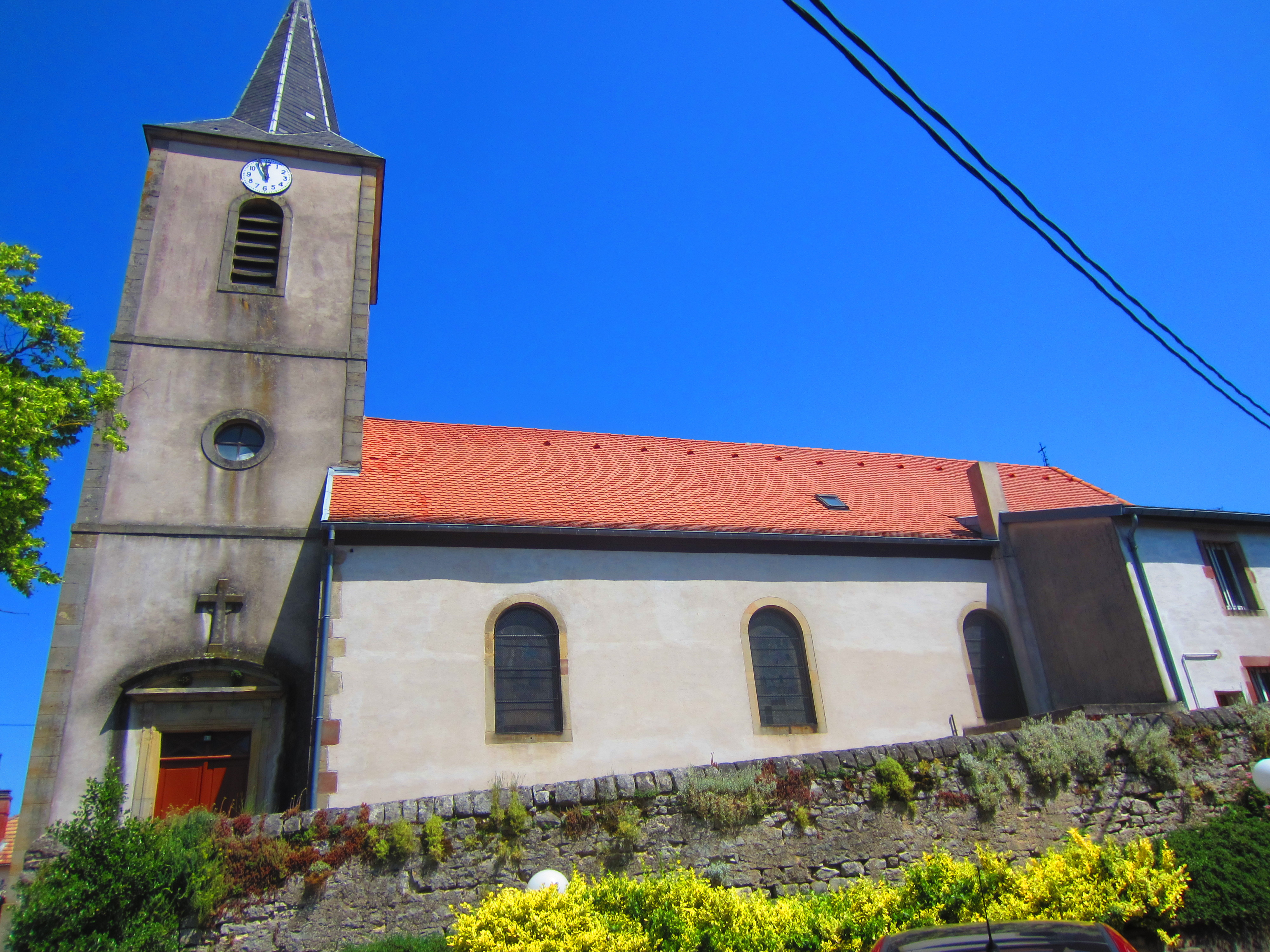 Eglise Imling (3)